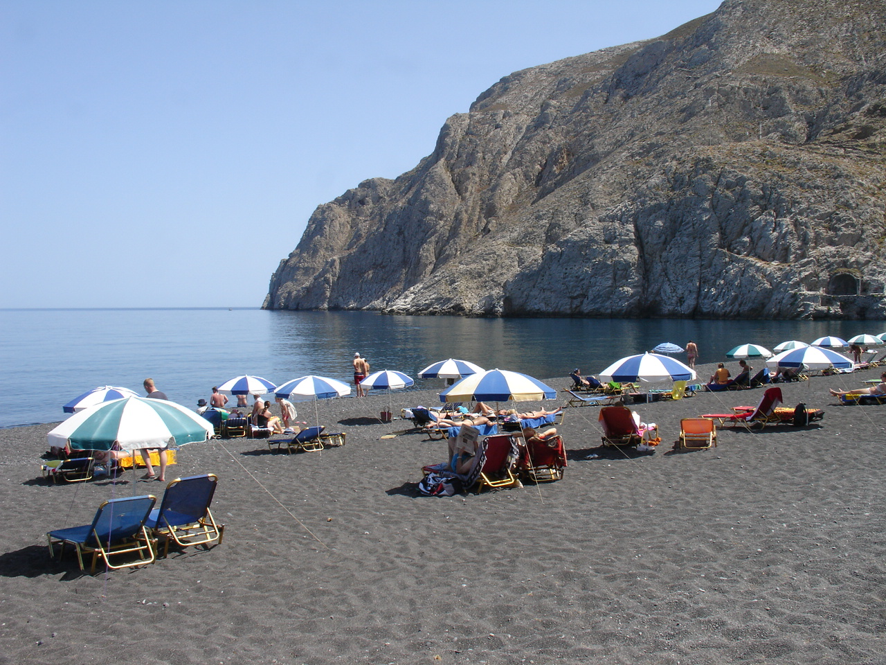 Black beach in Kamari, Santorini, Greece.